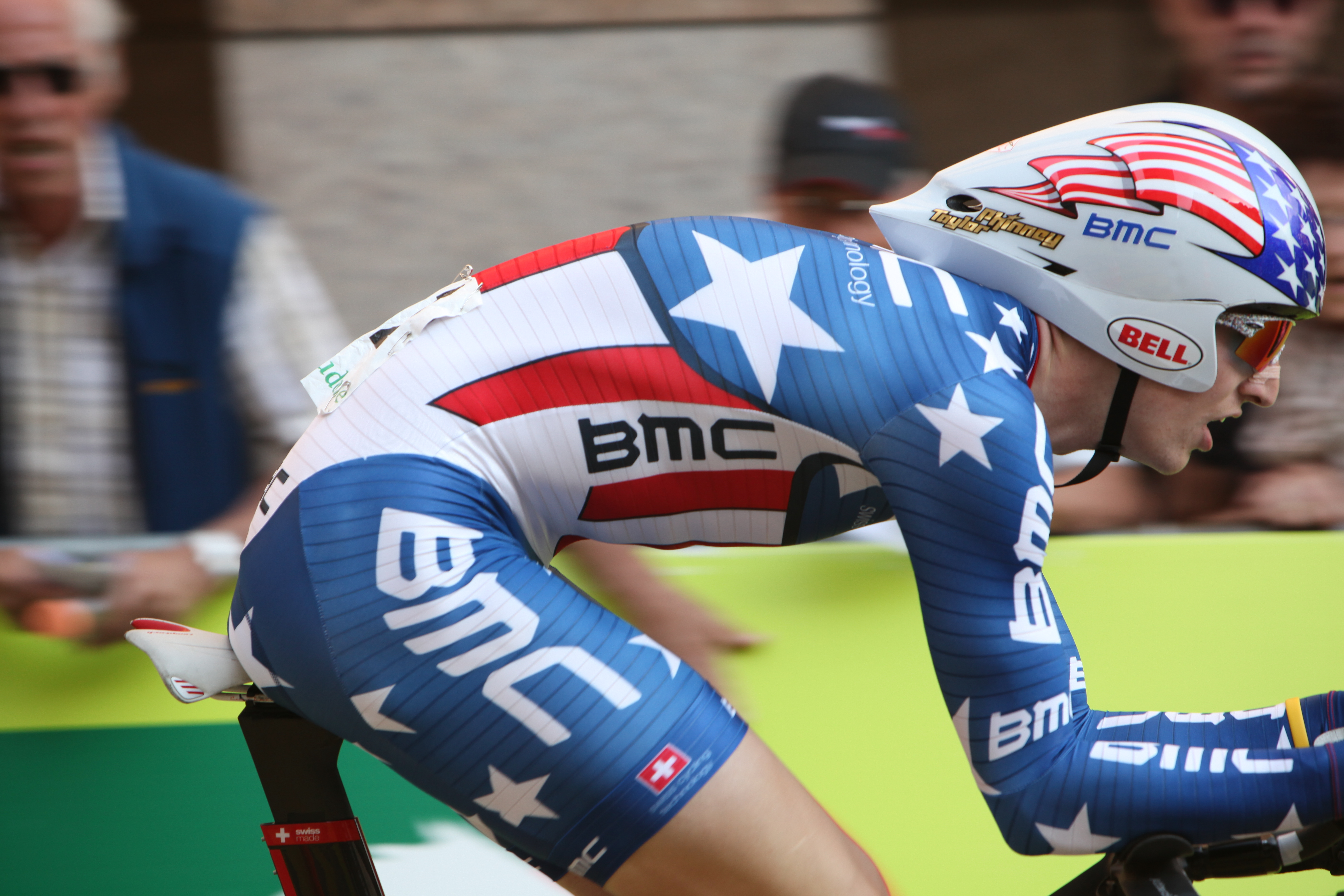 Taylor Phinney at the prologue of the Tour de Romandie 2011